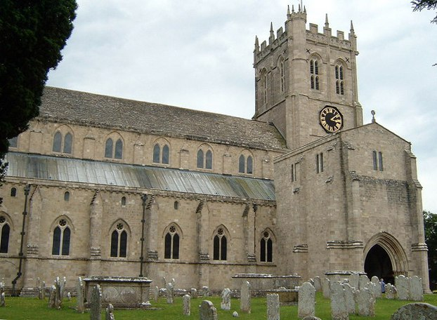 Christchurch Priory, Christchurch, Dorset, England